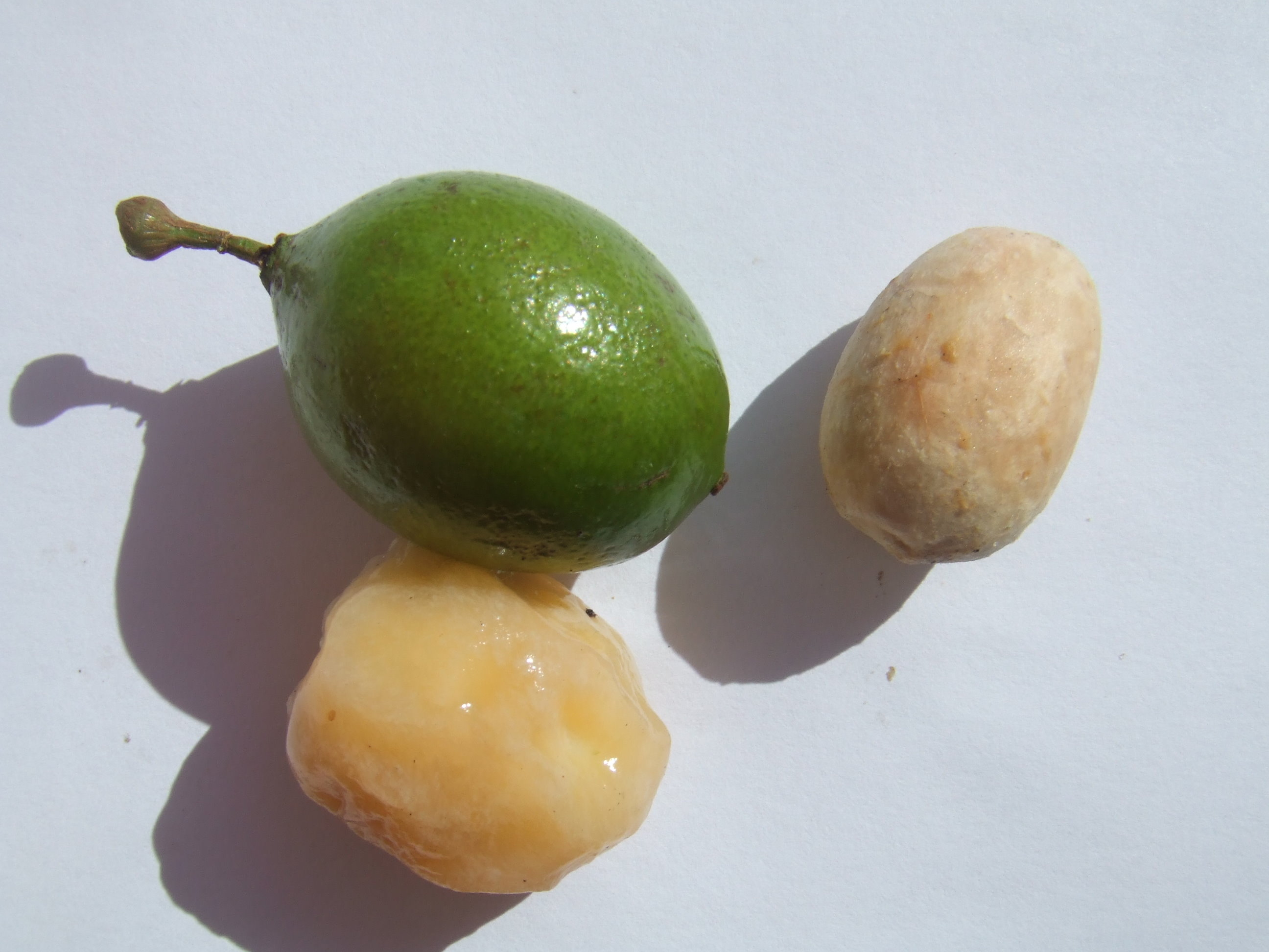 Close-up of fruit, fruitflesh and seed of Melicoccus bijugatus.